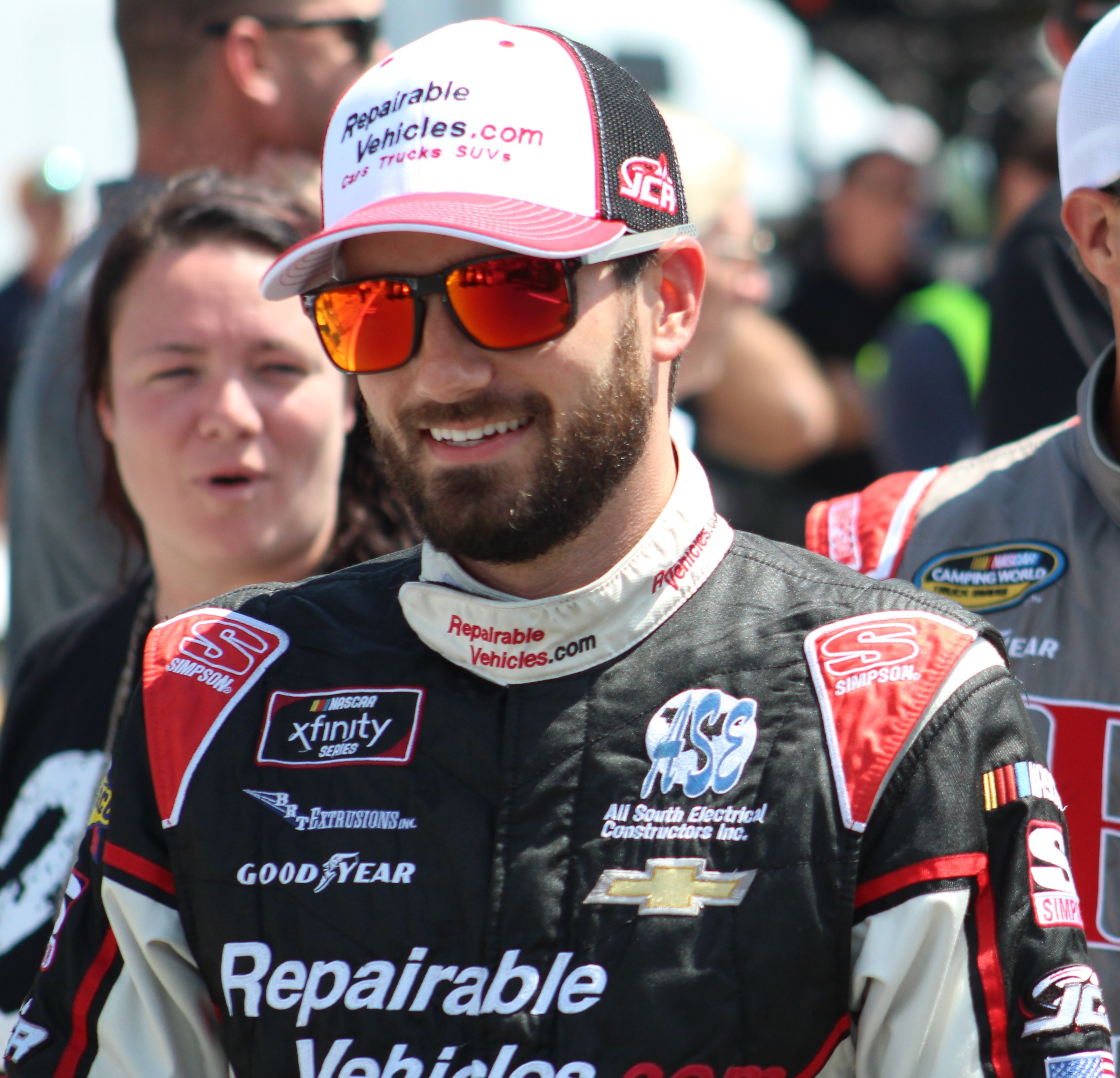 Jeremy Clements and J.J. Yeley